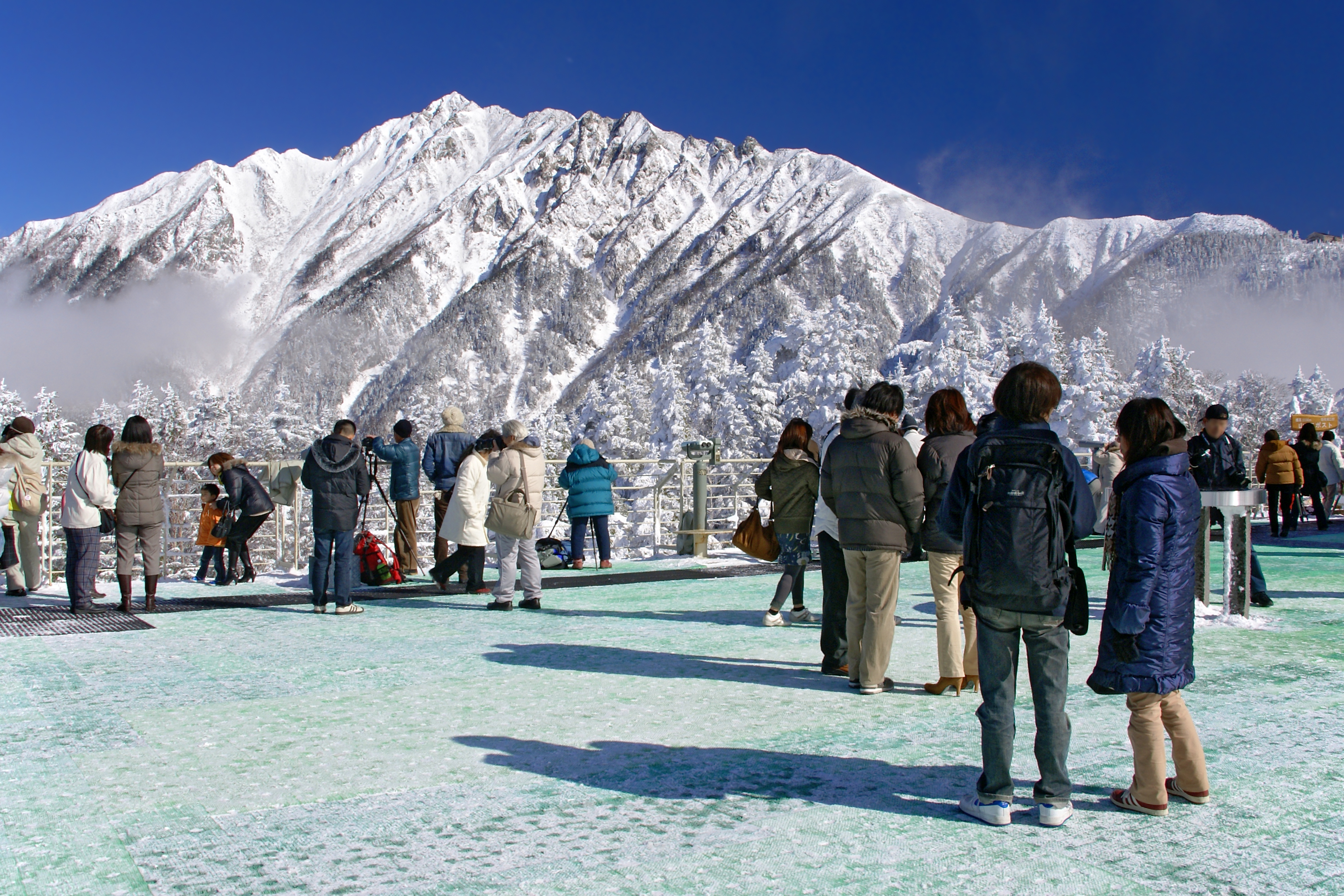 Mount Nishihotaka view from Nishihotaka-guchi Station of Shinhotaka Ropeway in Takayama Gifu prefecture, Japan.